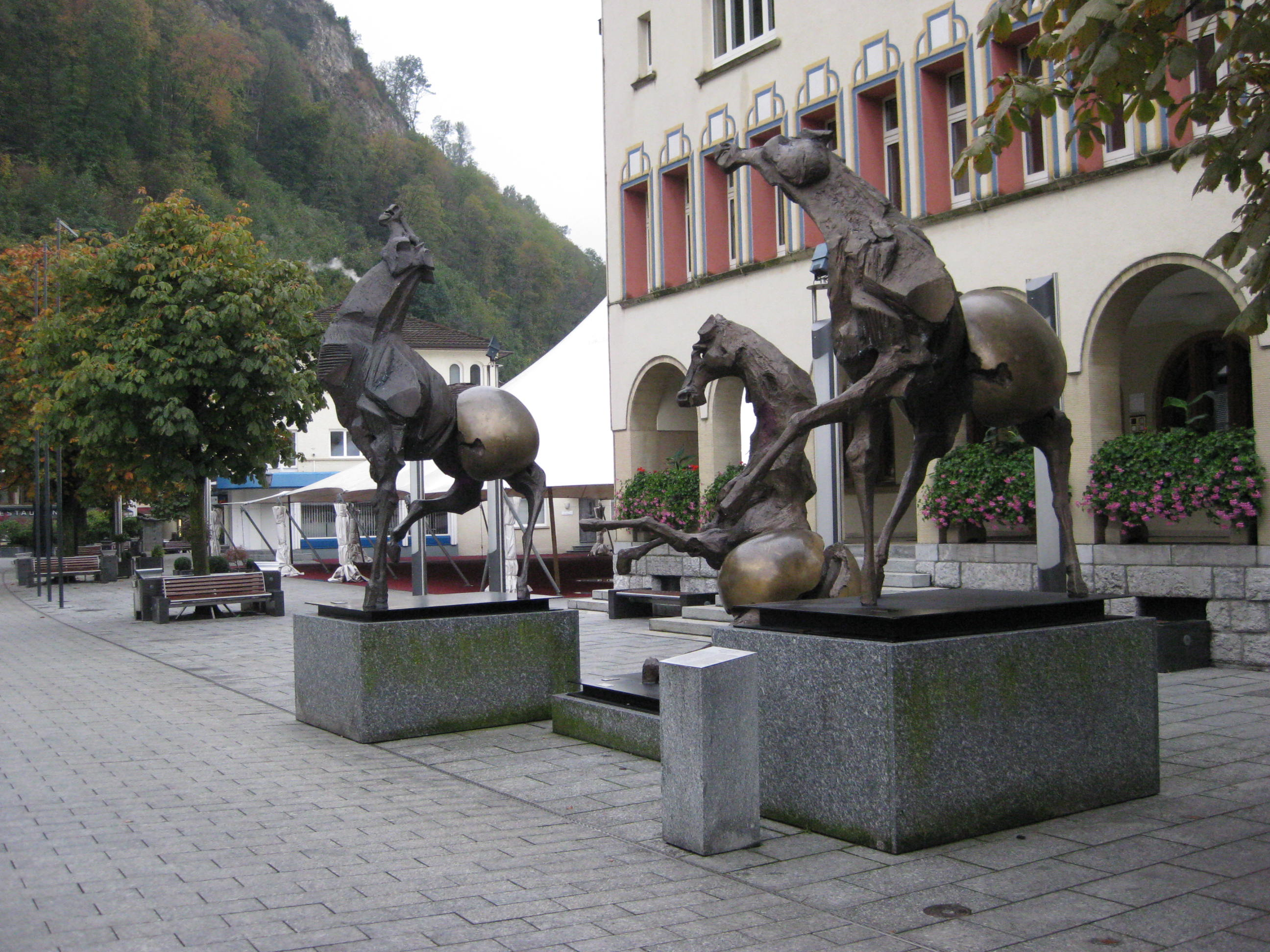 Nag Arnoldi, Tre cavalli, 2002, Liechtenstein, Vaduz, in front of the town hall